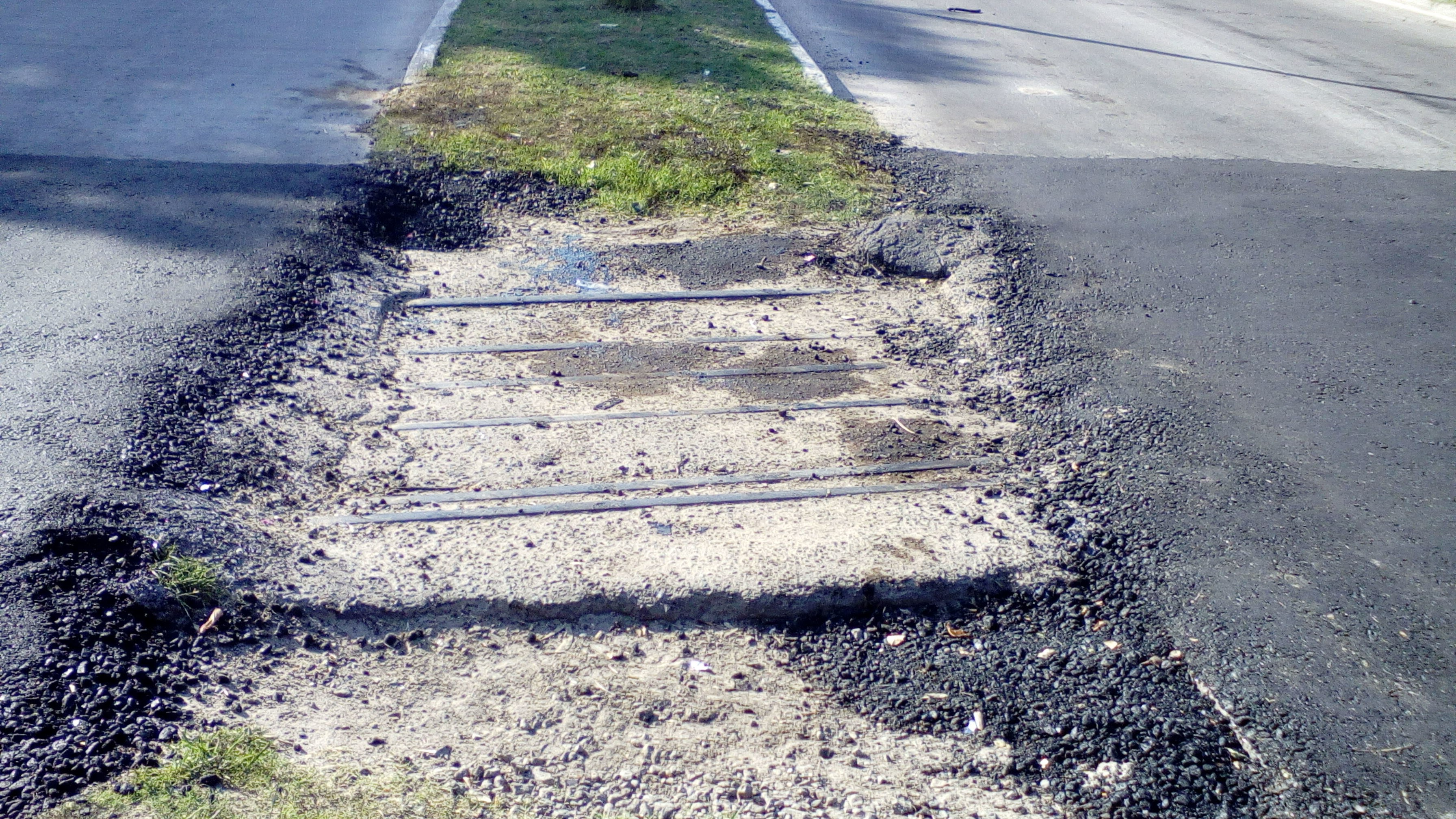 The remains of a rail tracks from the old Buenos Aires & Ensenada Port Railway. No longer in use, most of the rails are covered by newer asphalt.